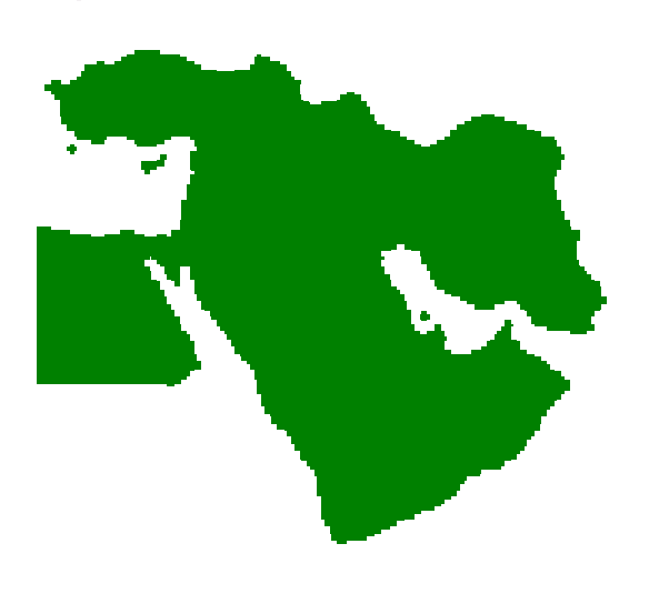 Middle-East map